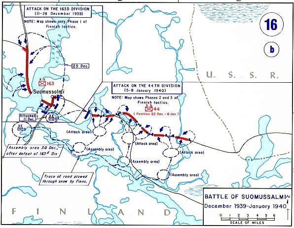 Map of the Battle of Suomussalmi 1939/40